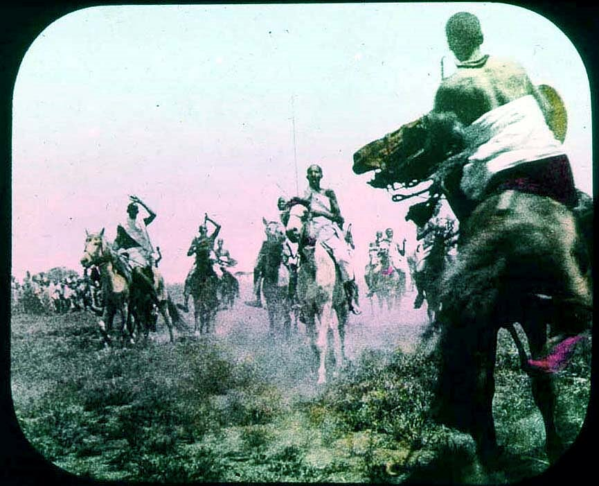 Name of Expedition: Africa Expedition Participants: D.G. Elliot and Carl Akeley Expedition Date: 1896 Purpose or Aims: Zoology Mammals Location: Africa, Somalia